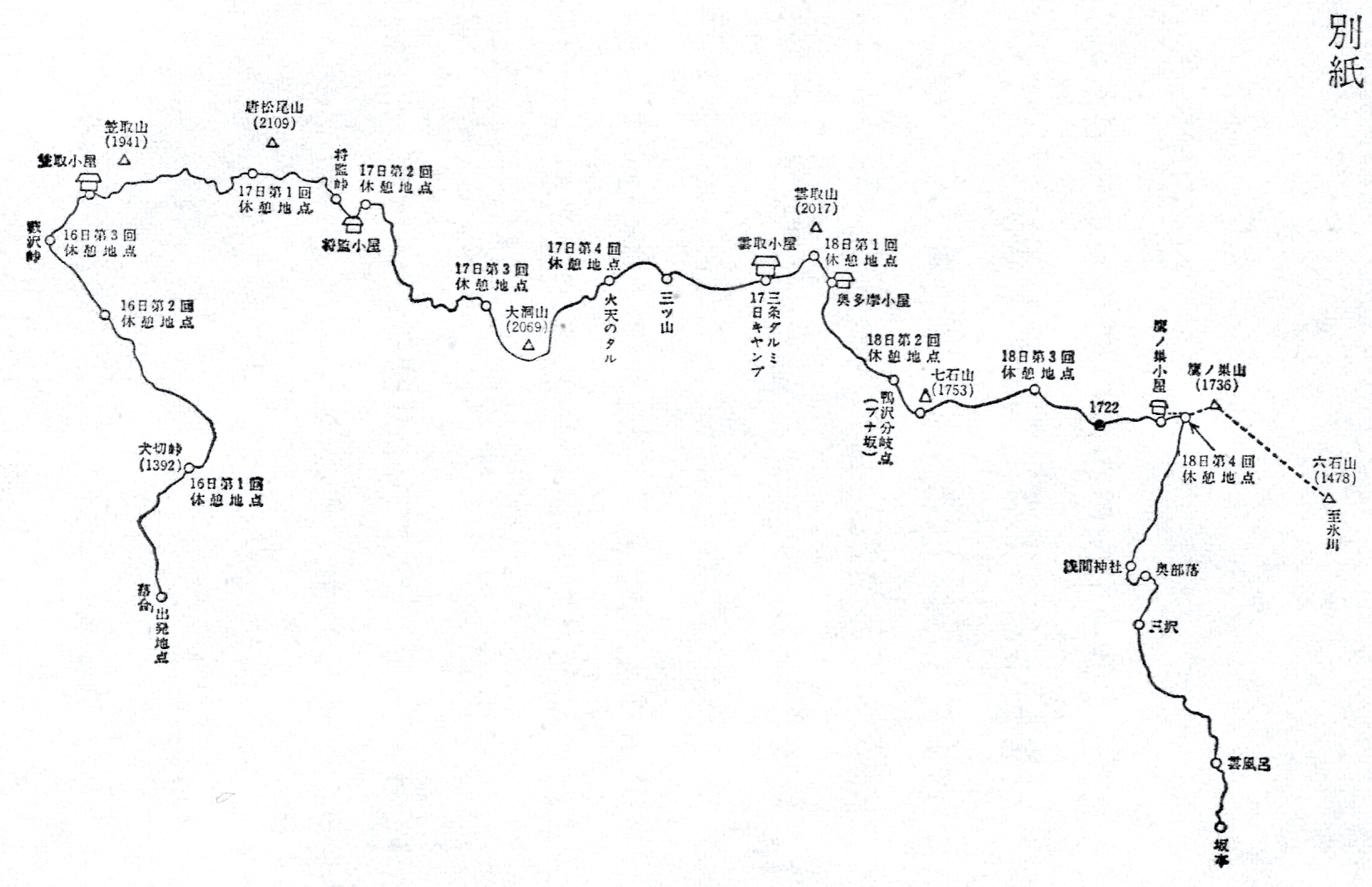 Judgement appendix for Tokyo District Court 1965 (go wa) No. 182 Injury fatalities and injury case (death corporal punishment case of Wonder Vogel Club, Tokyo Agricultural University).